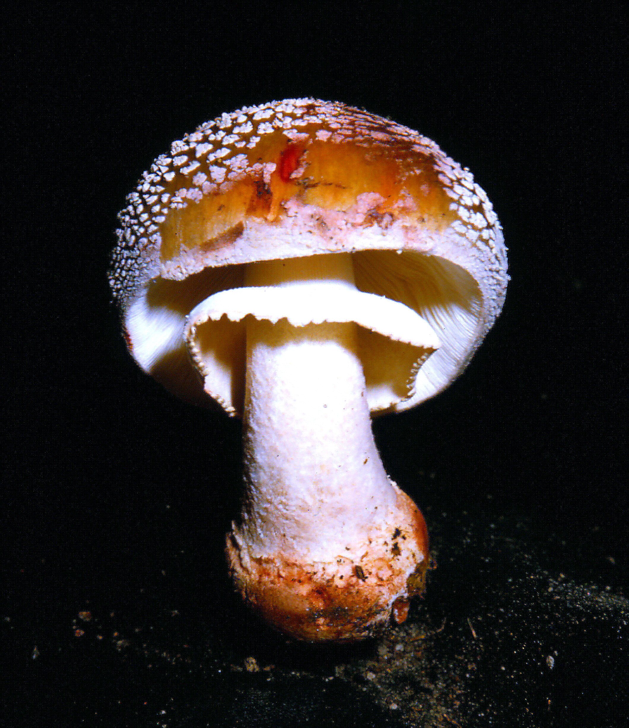 "Blusher" (Amanita rubescens) in the Forêt de Saint Germain en Laye, France